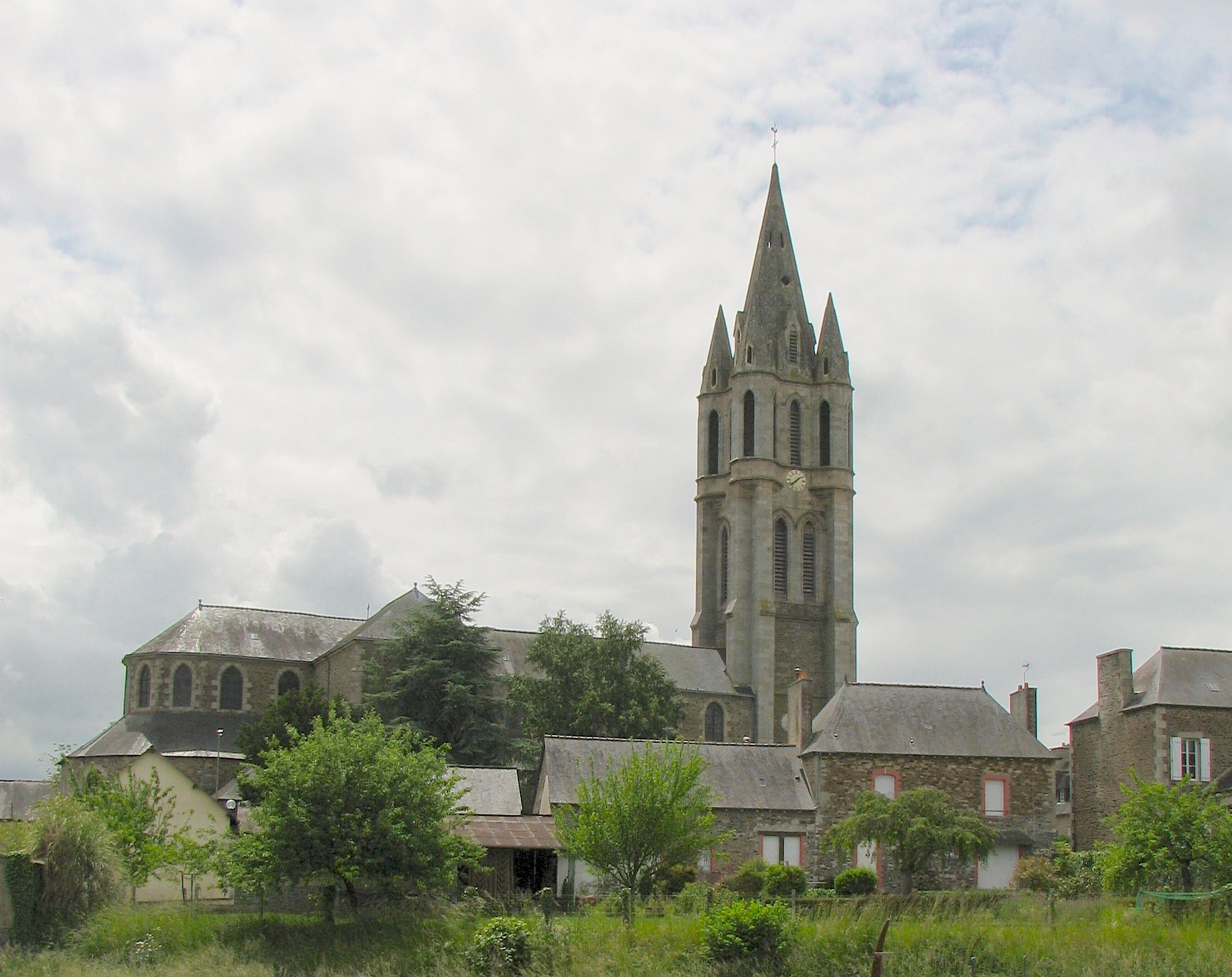 Church of Evran seen from the canal